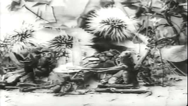 Video Screenshot from stop motion movie Strekoza i mouravieï (The Ant and the Grasshopper) -animated and directed by Wladyslaw Starewicz